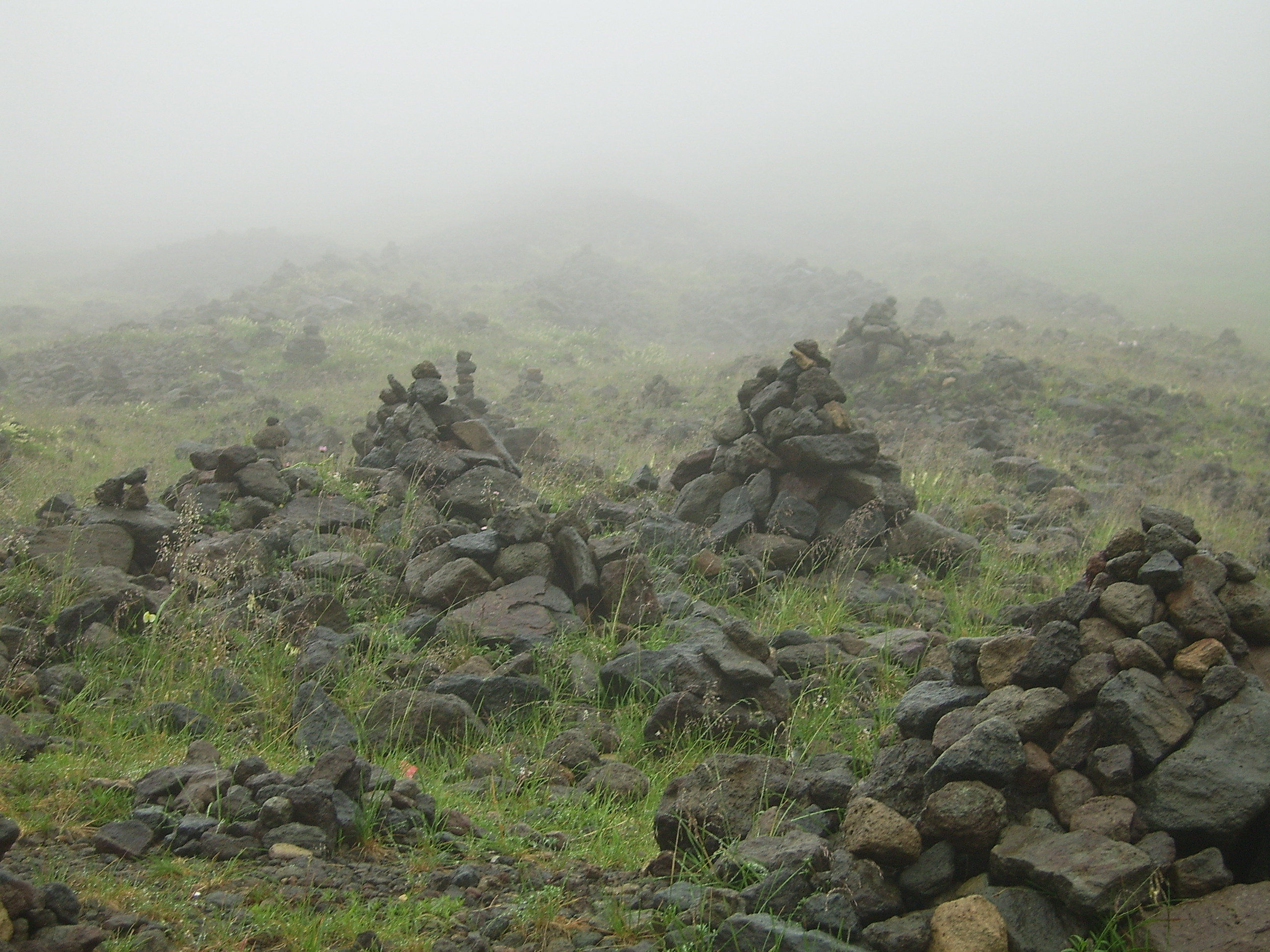 Cairns on Baekdu Mountain (border between North Korea and China)